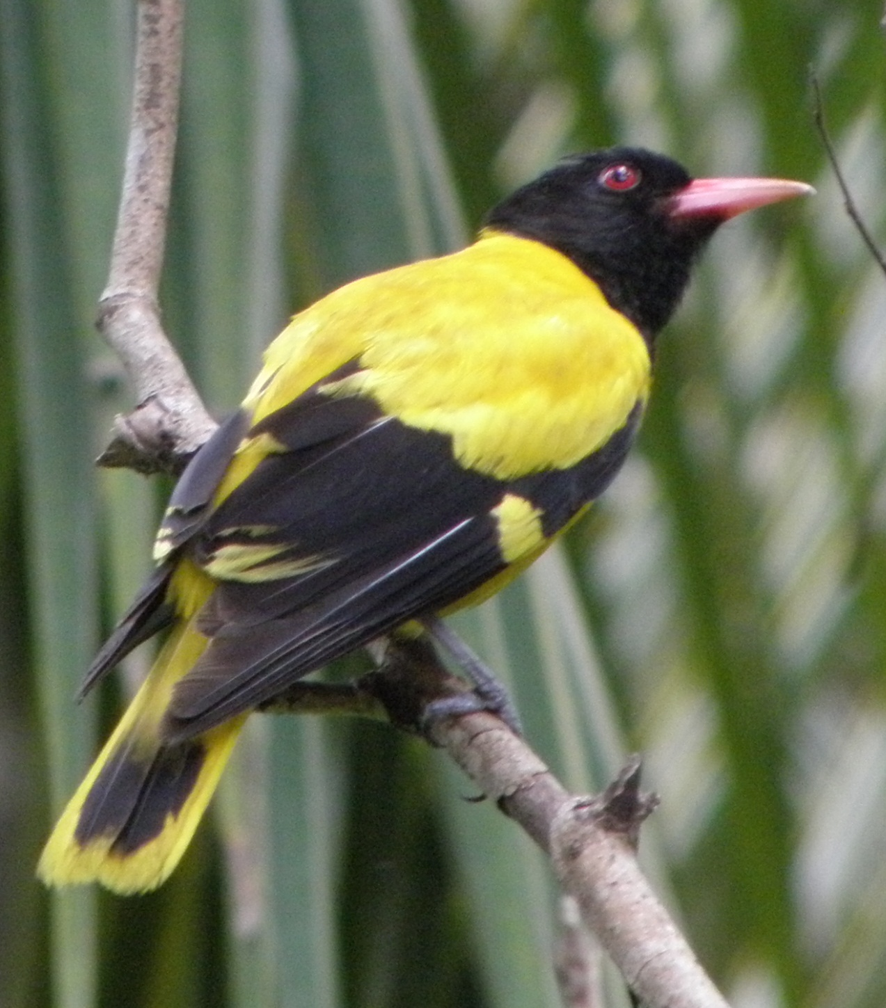 Black-hooded Oriole